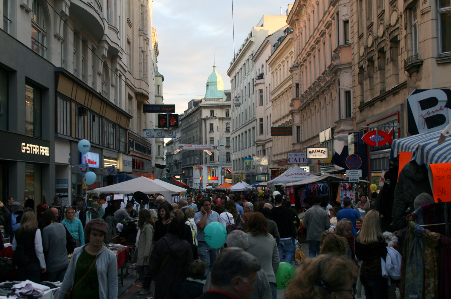 Flea market at the Neubaugasse in Vienna